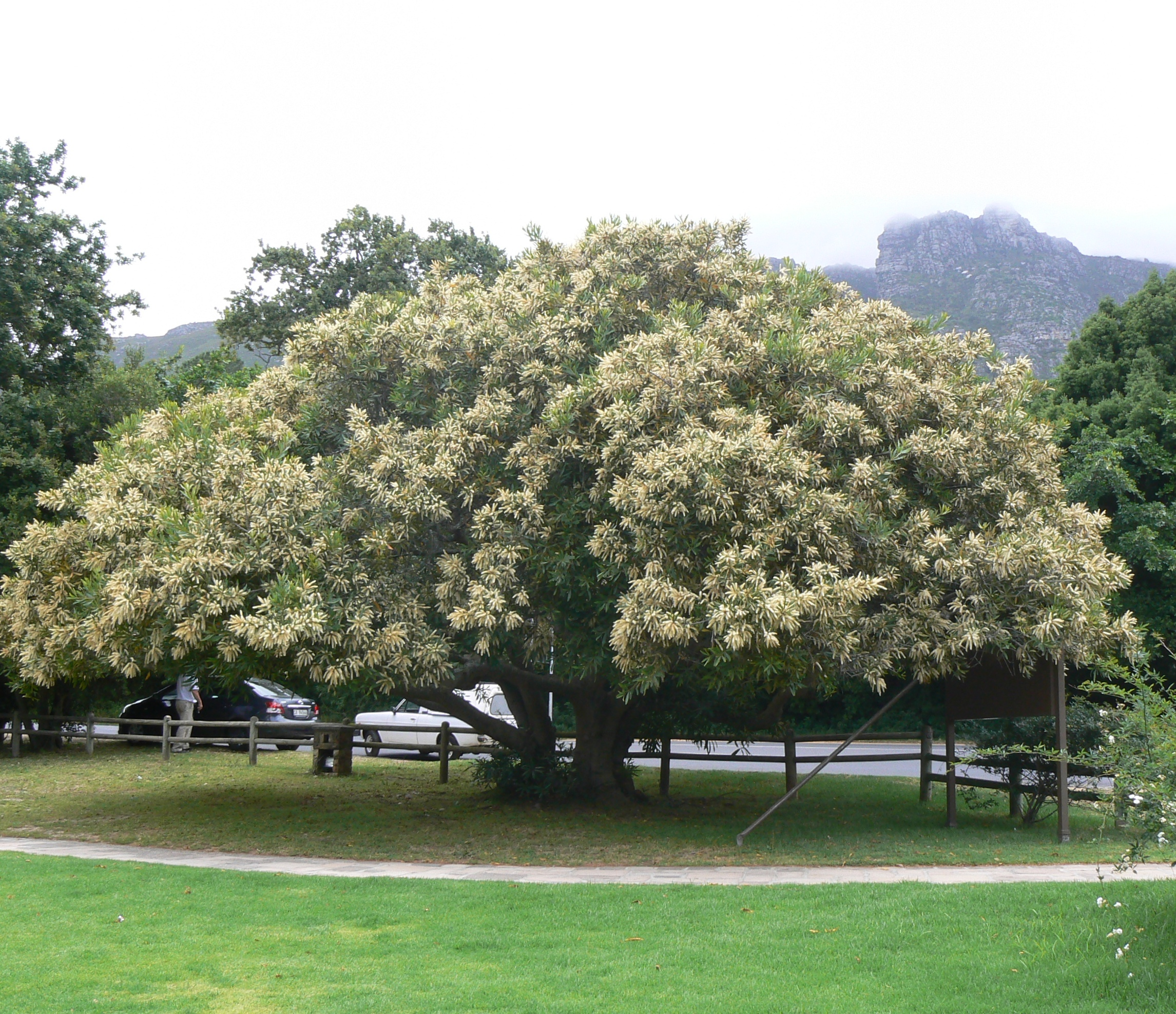 An indigenous Brabejum stellatifolium tree in flower. Cape Town. Afromontane forest vegetation.